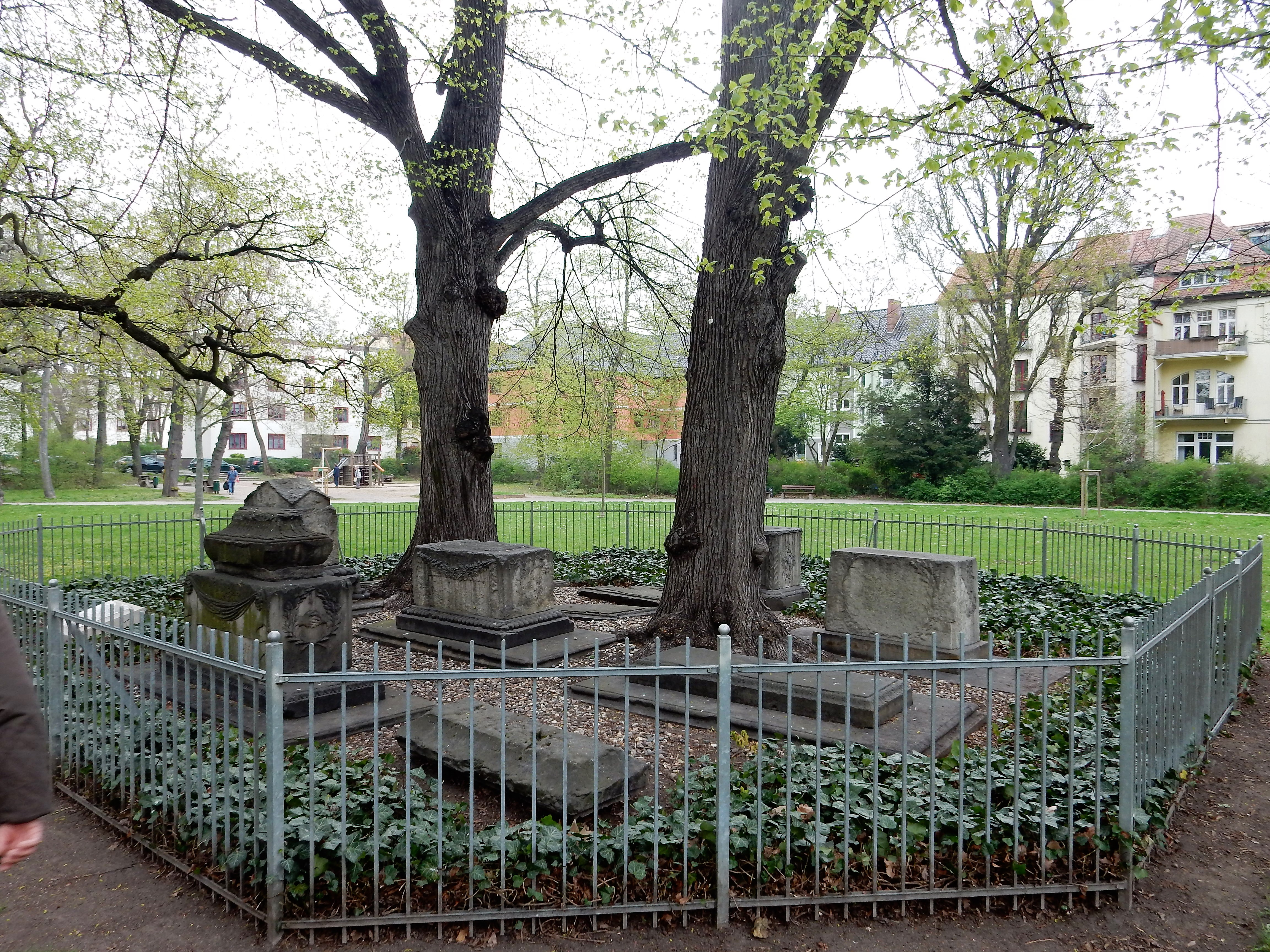 Magdeburg, Schneidersgarten, graves of Schneider family